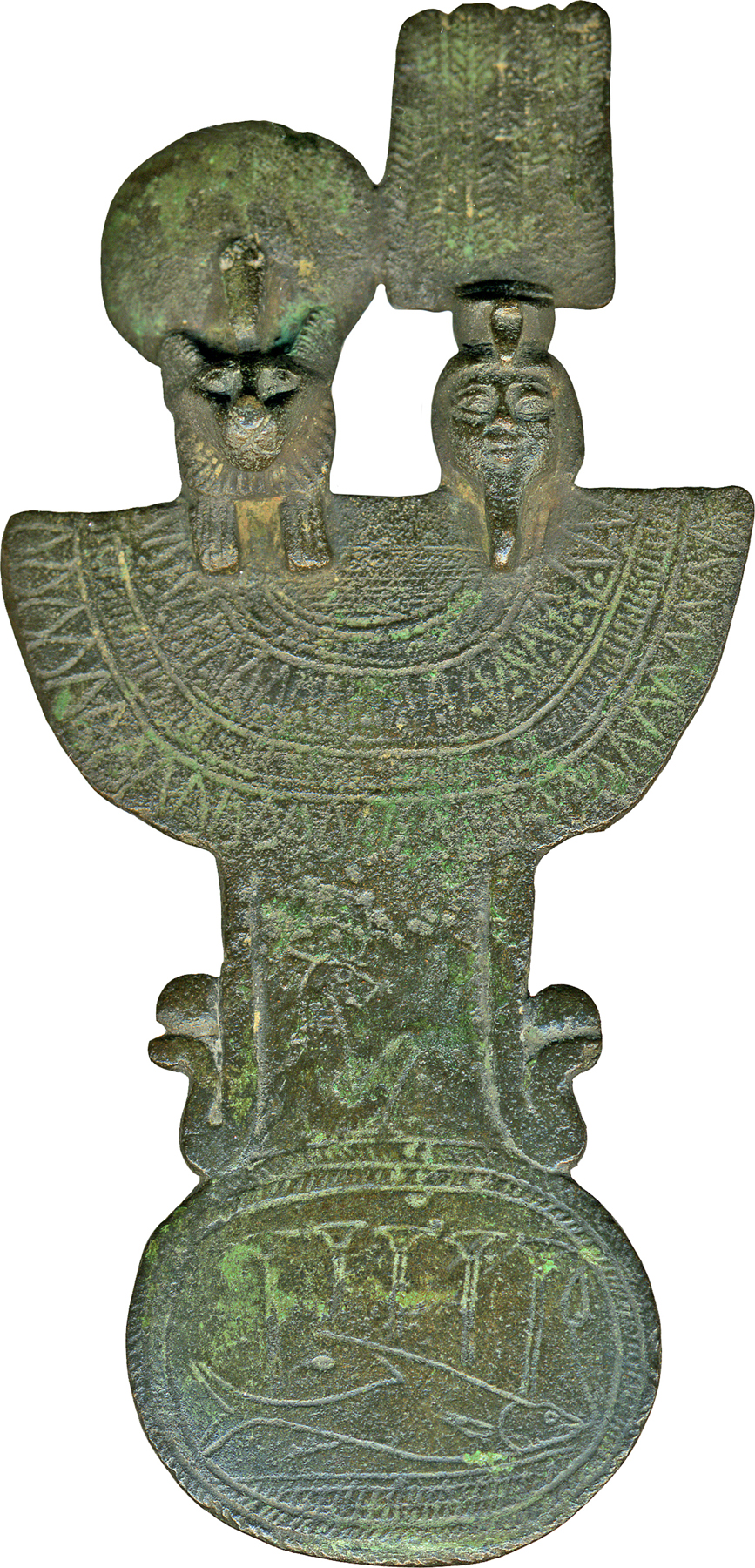 In rituals for the gods, special instruments were used by priests and priestesses to invoke the deities or to perform rituals before them. One of the most important instruments was the Menat, a counterweight that held elaborate beaded collars in place, used also as a noise-making ritual instrument by rattling the collar's beads. The representation of a broad collar called an Usekh (also called an Aegis, originally a Greek term for "shield") surmounted with the head of a deity functioned as a protective symbol. This combination of the Menat and Usekh is surmounted by the heads of the divine couple Shu (god of the air) and Tefnut (goddess of moisture and corrosive air). They were the first emanations of the primeval god Atum, when he created the world. The Menat is flanked by cobra serpents; the upper part displays the squatting figure of the ram-headed sun god, while the lower part displays an oxyrhynchus fish in a papyrus thicket.